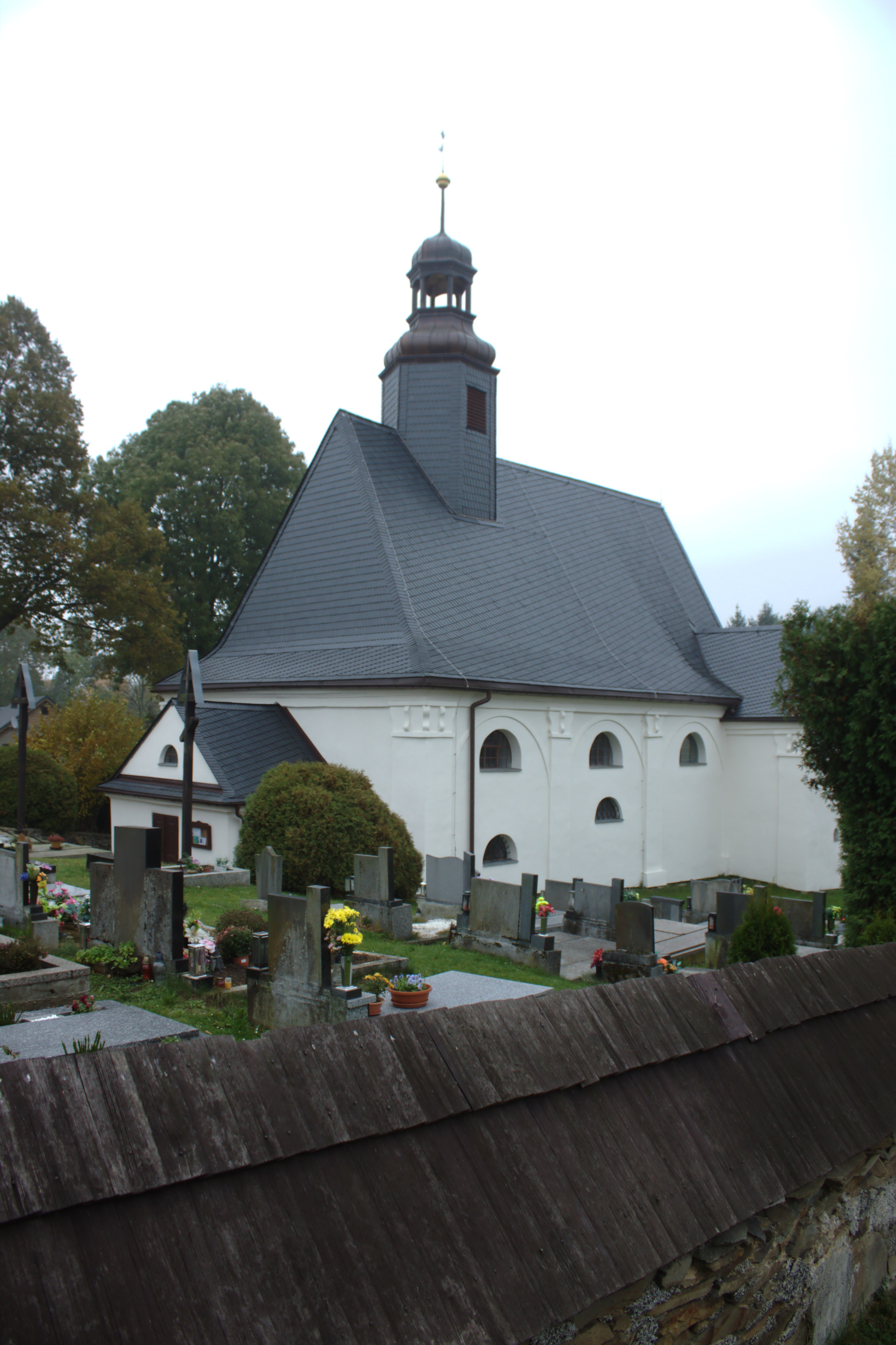 A church in Milotice nad Opavou, Moravian-Silesian Region, CZ